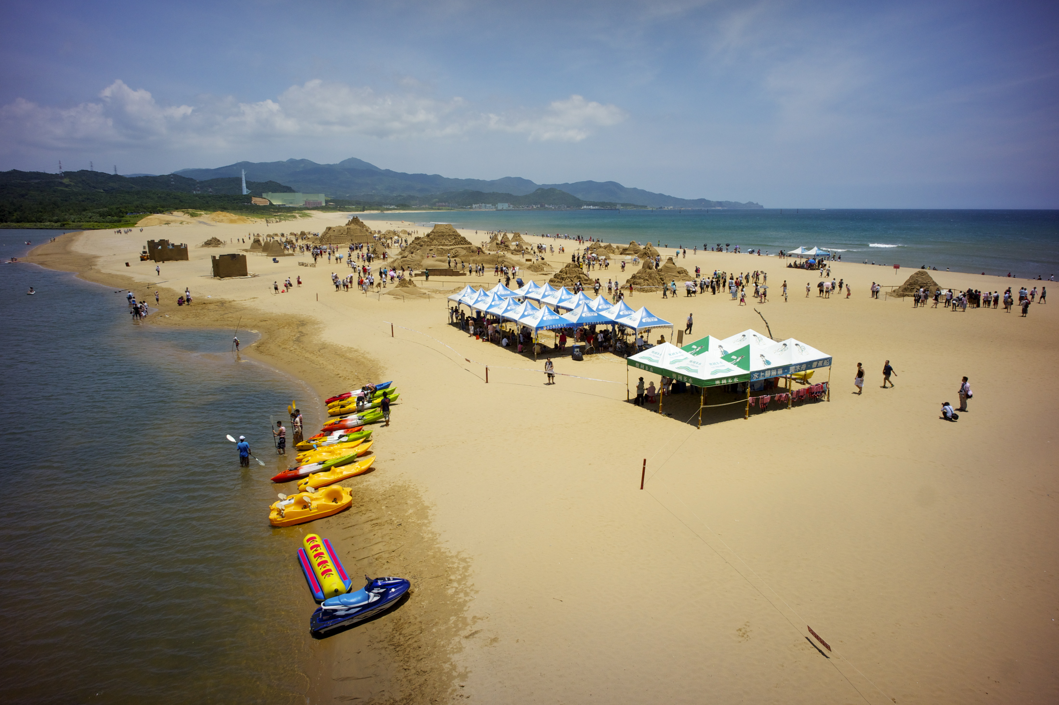 A picture of the 2011 Sand Sculpture Festival in Taiwan, along Taiwan's longest beach from Fulong to Yanliao